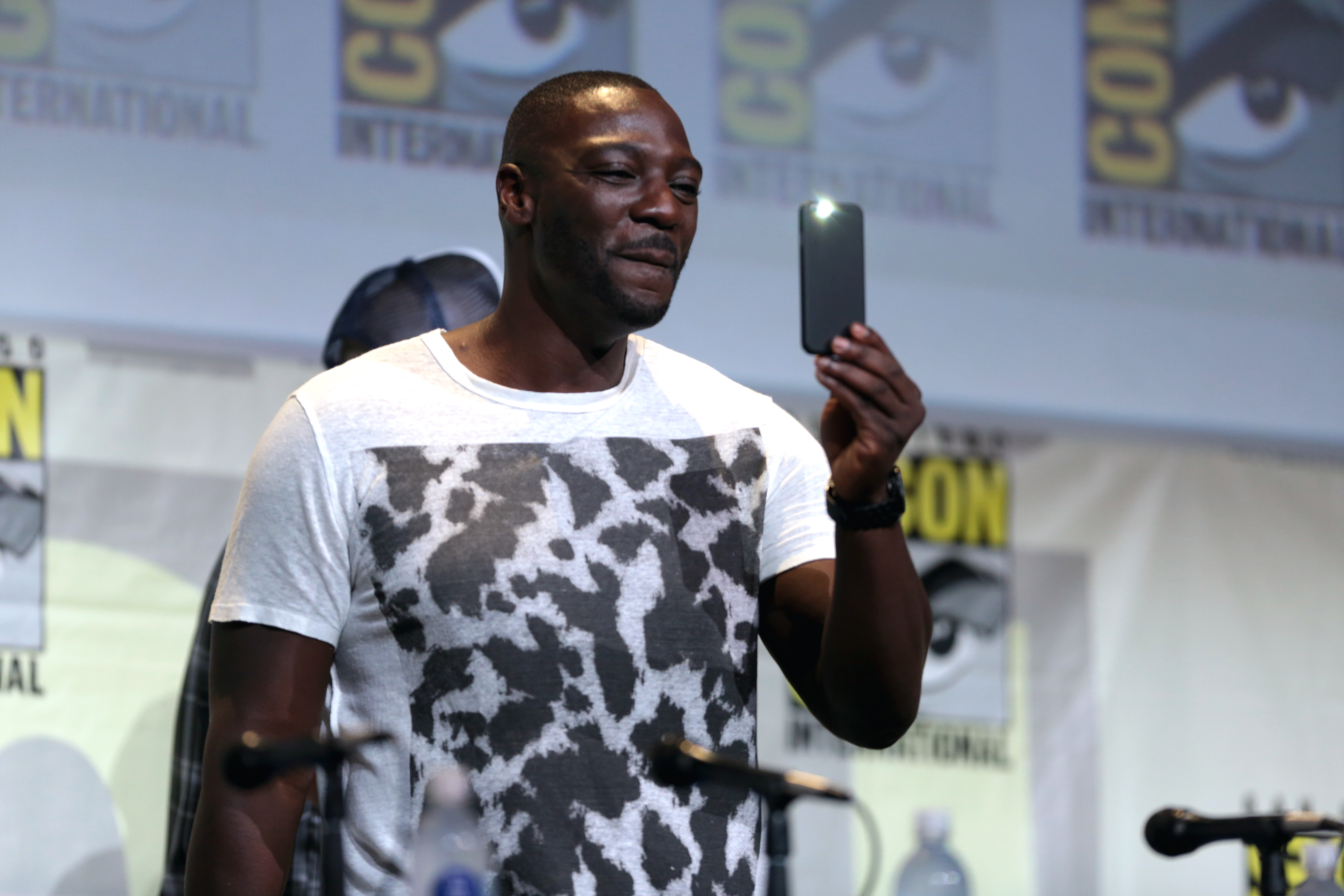 Adewale Akinnuoye-Agbaje speaking at the 2016 San Diego Comic Con International, for "Suicide Squad", at the San Diego Convention Center in San Diego, California.